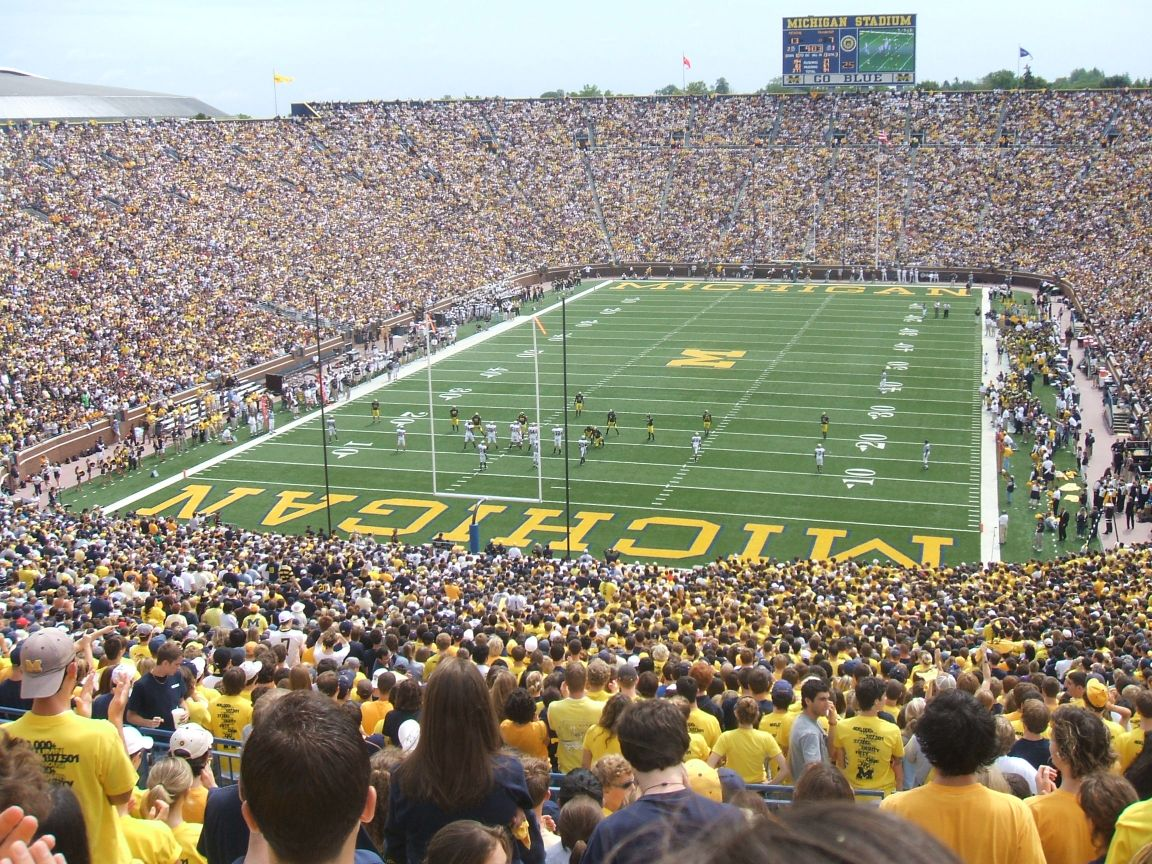 University of Michigan Wolverines vs. Vanderbilt